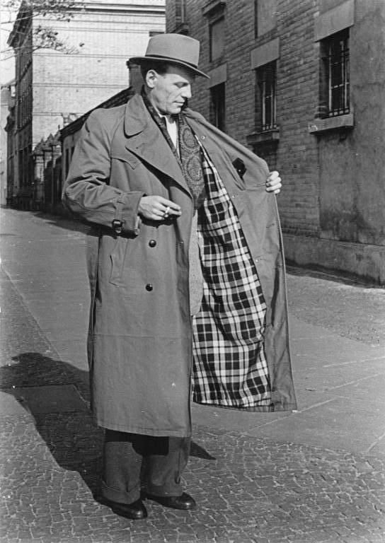 An inexpensive trenchcoat of waterproof khaki with a snap-out lining by VEB Leipziger Bekleidungswerks.